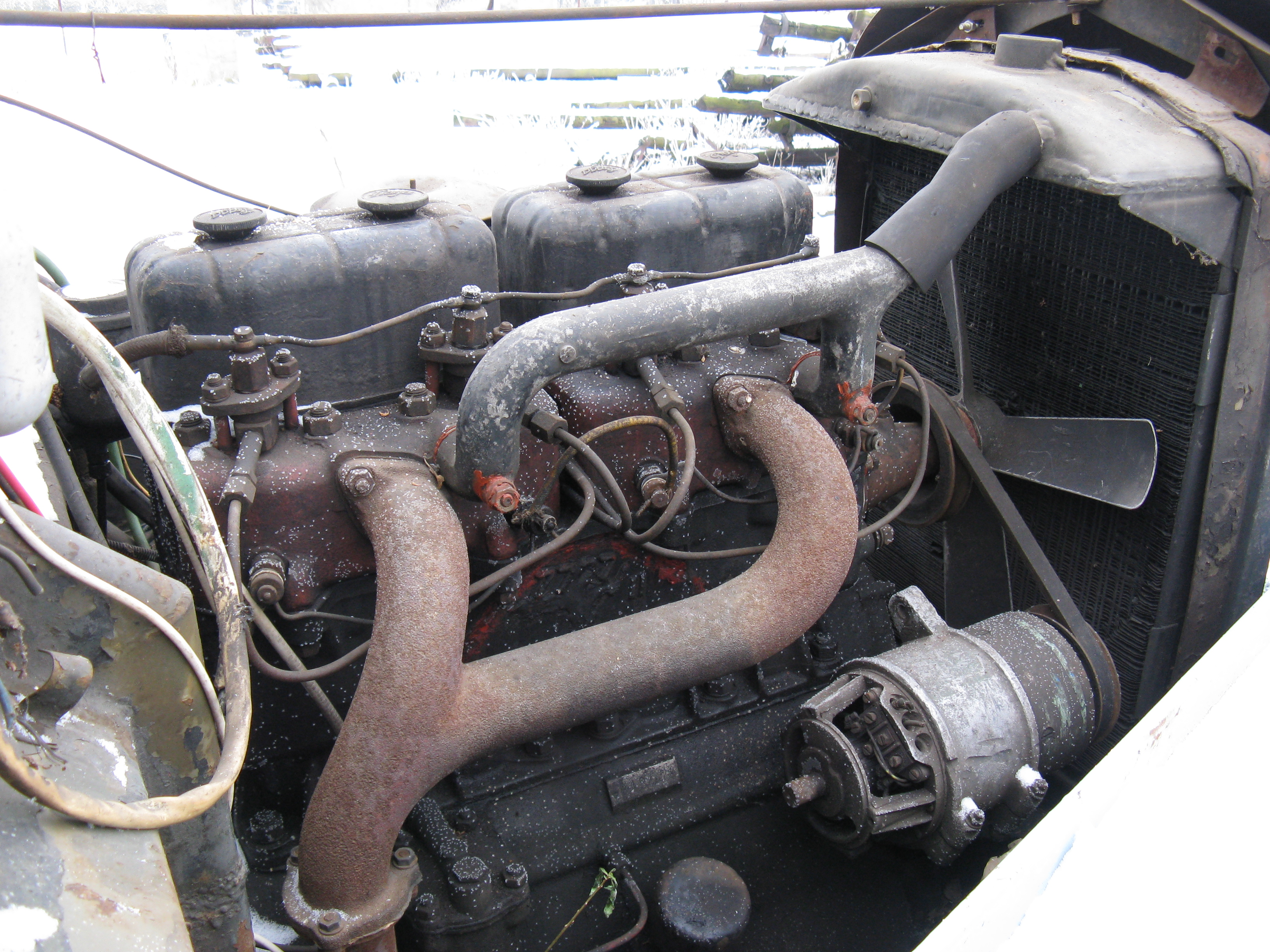 Veteran vehicle (bus) Praga RND (Hurvínek): Engine with cooler from right. Documentation for renovation: Praga RND/Autobus/Hurvínek